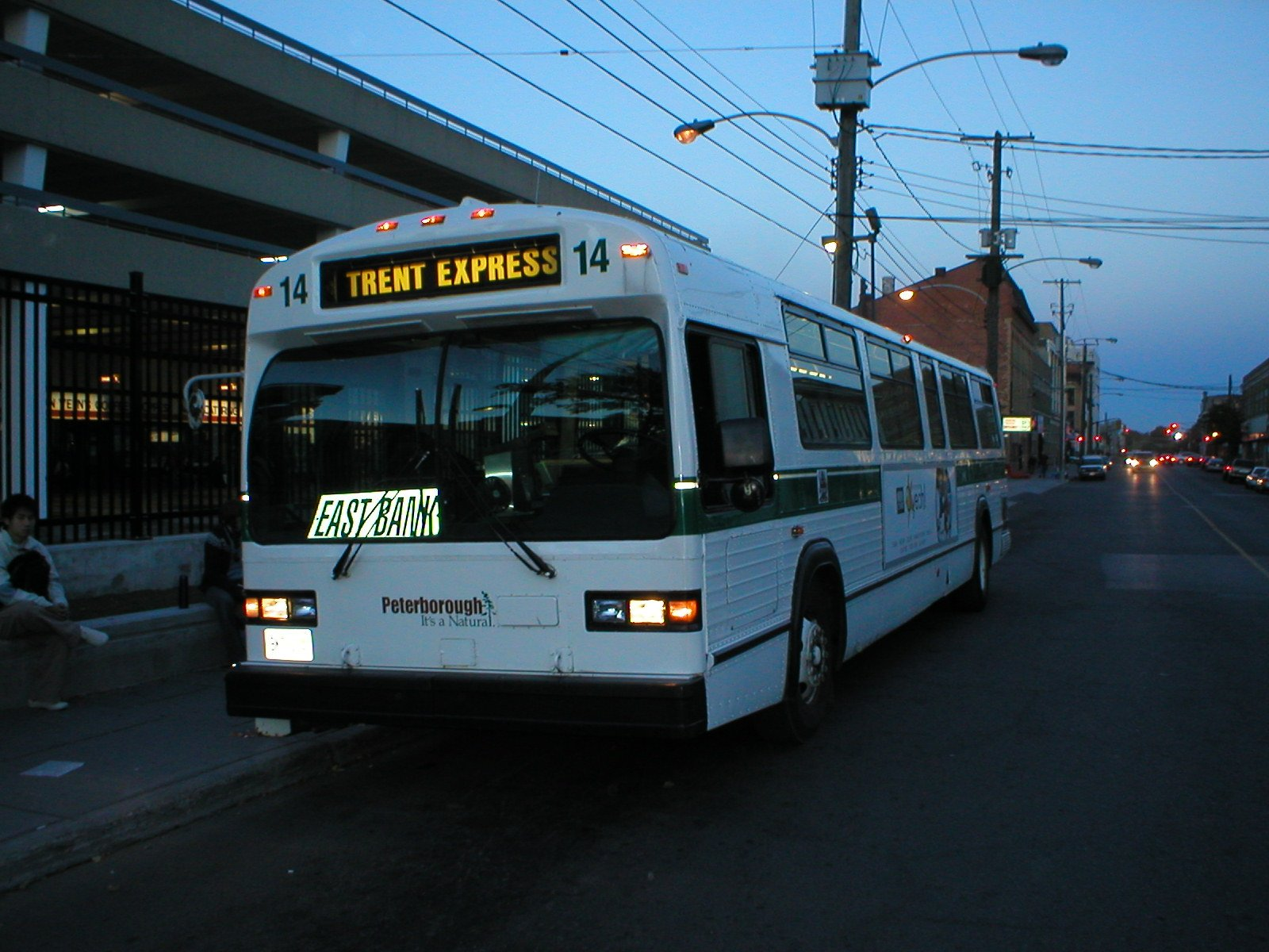 Peterborough Transit's bus #14, model unknown, parked outside the Peterborough Downtown Transit Terminal while waiting to serve the Trent Express East Bank route. Photo taken looking east along Simcoe Street toward George Street.